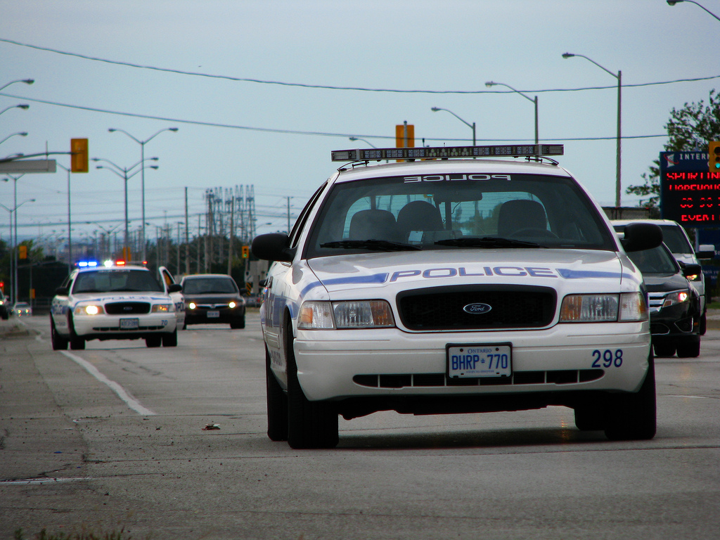 Peel Region Police cars in Malton, Ontario